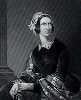 Mary Howitt Poet and Author